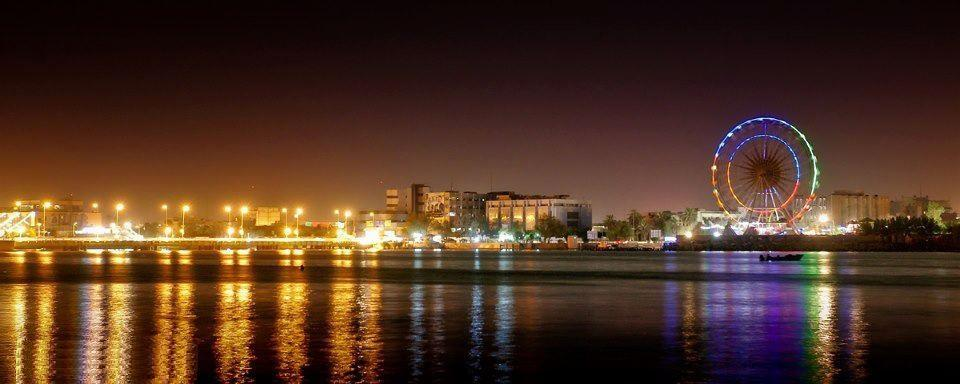 منظر لكورنيش العشار في البصرة من جهة التنومة